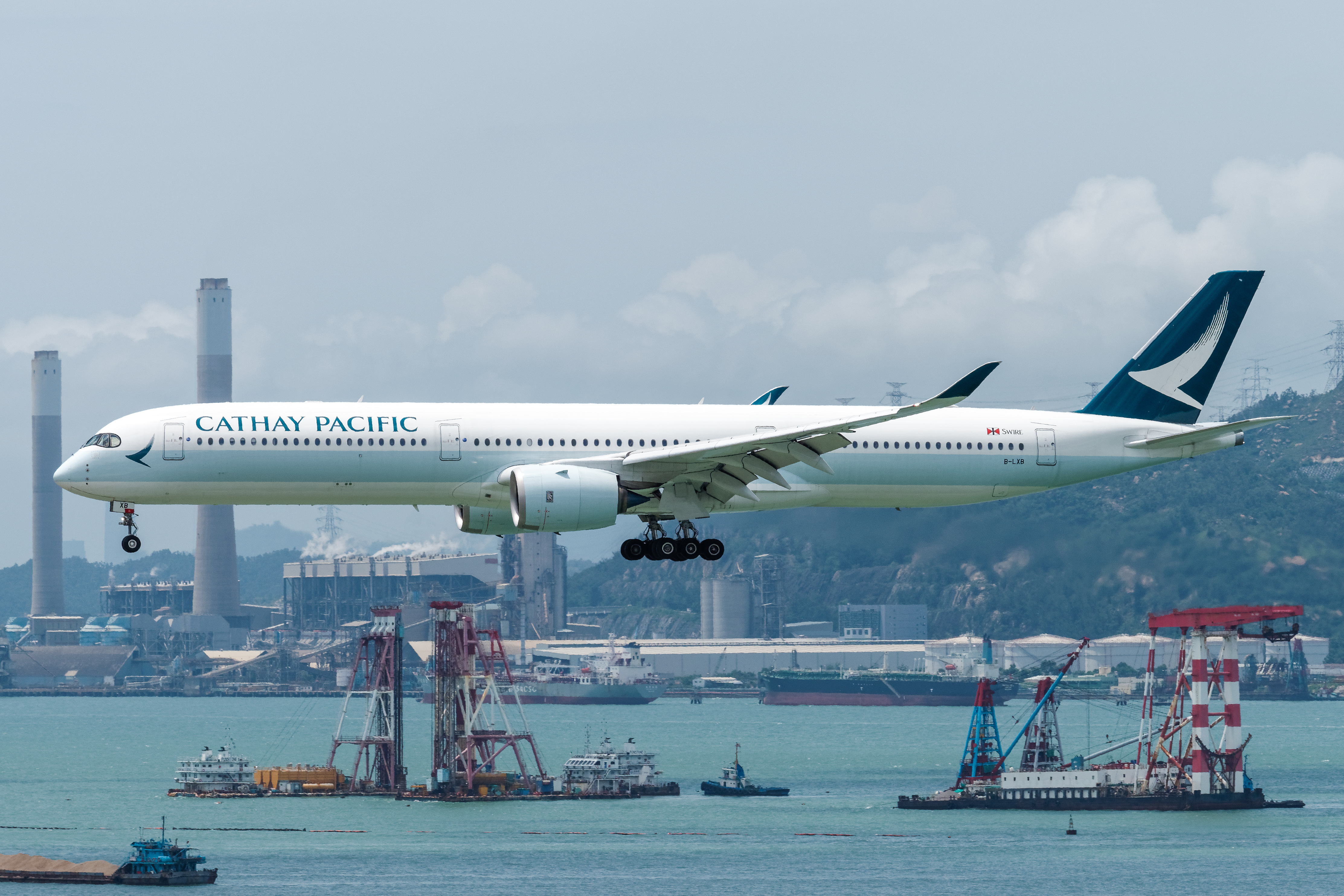 Cathay Pacific Airbus A350-1000 B-LXB flying CX906 from Manila to Hong Kong